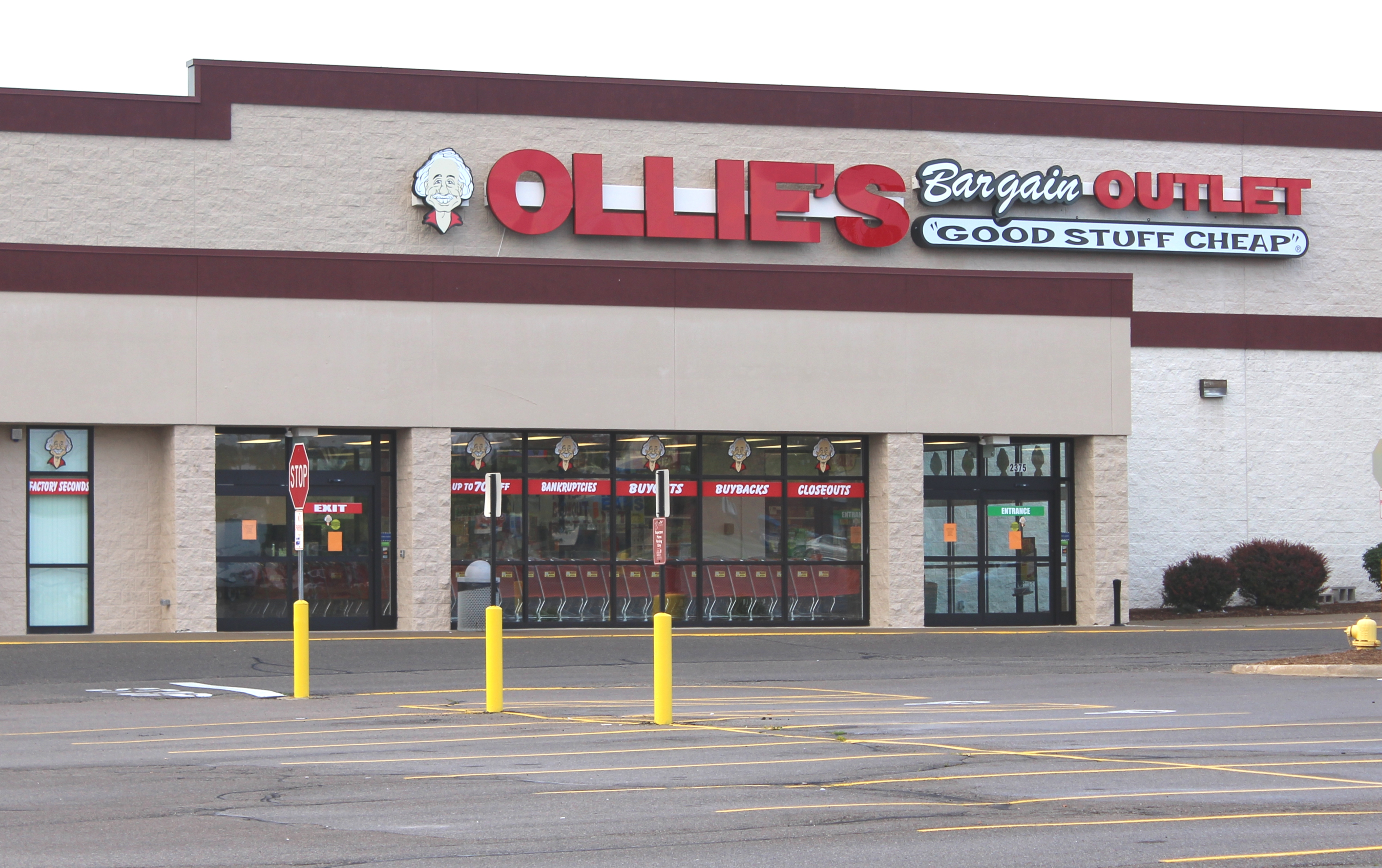 Ollie's Bargain Outlet store, Roundtree Place Shopping Center, 2375 Ellsworth Road, Ypsilanti Township, Michigan.